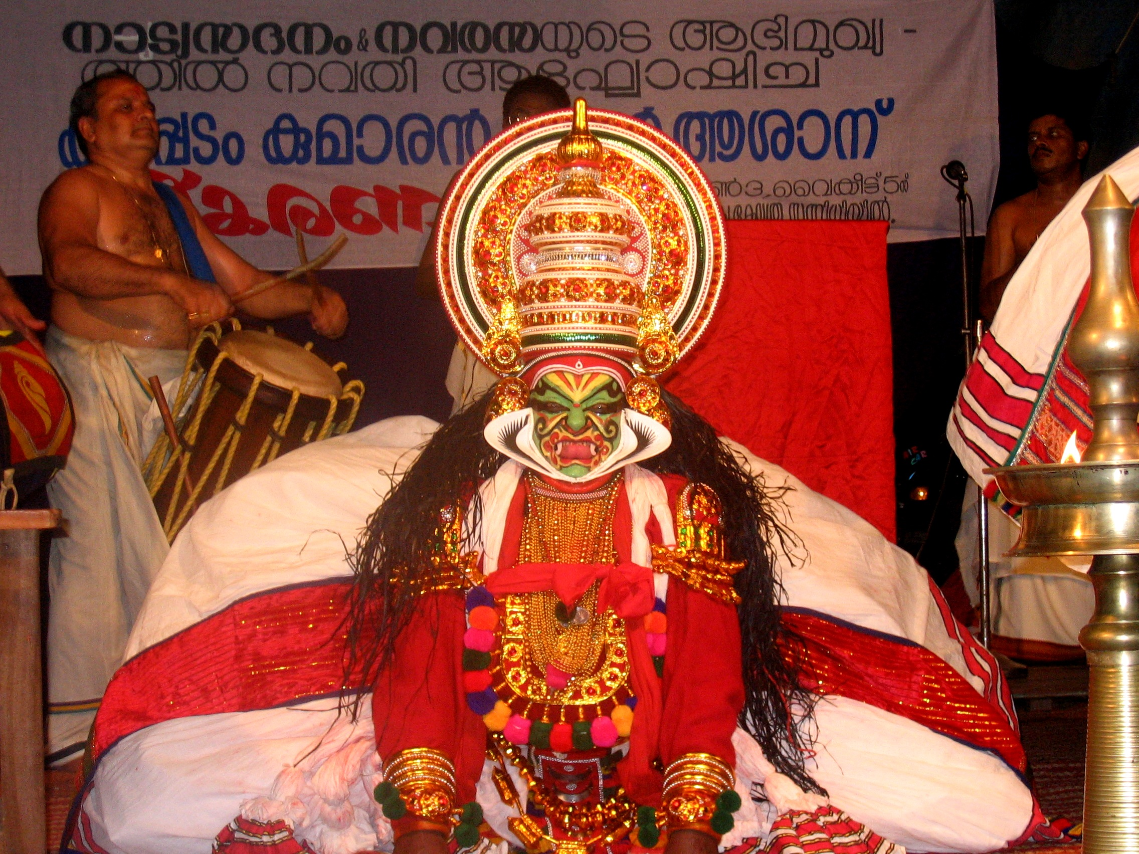 A photograph from the Duryodhanavadham (The Slaying of Duryodhana) Kathakali performed outside the Sri Koodalmanikyam Temple, Irinjalakuda, Kerala, India. The programme was conducted as part of The photo shows Sadanam Krishnankutty as Raudra Bheema (Enraged Bheema), immediately before he slays Dushasana.